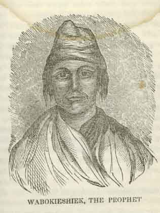 Wabokieshiek (White Cloud) Ho-Chunk prophet